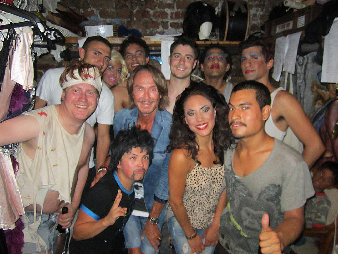 2013 ÄngelCab cast with Christer Lindarw (center), Emil Eikner (far left), Nina Gomez & others after a 40th anniversary performance of Wild Side Story